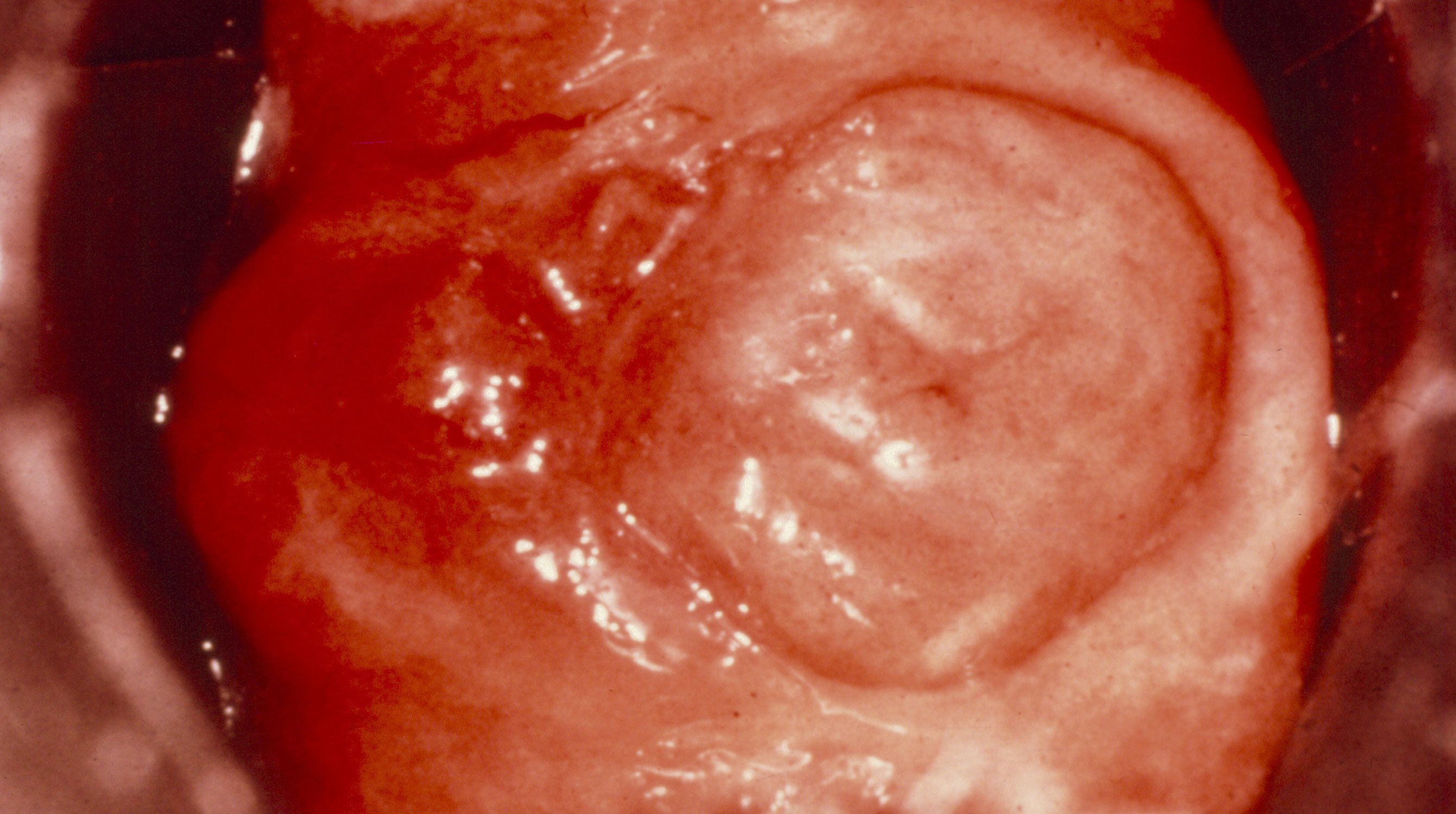 Title Diethylstilbestrol (DES) Cervix Description The cockscomb, collar, and pseudopolyp of cervix. Cockscomb (hoods) are markedly enlarged folds of cervical stroma and epithelium . Low, broad folds are collars (rims). A pseudopoly is that portion of the cervix which is medial to a constricting band (sulcus) and has on superficial examination the appearance of a polyp. However, the pseudopolyp is not a true polyp since the endocervical canal transverses through it. Topics/Categories Anatomy -- Gynecologic Cancer Types -- Cervical Cancer Cells or Tissue -- Abnormal Cells or Tissue Type Color, Photo Source National Cancer Institute